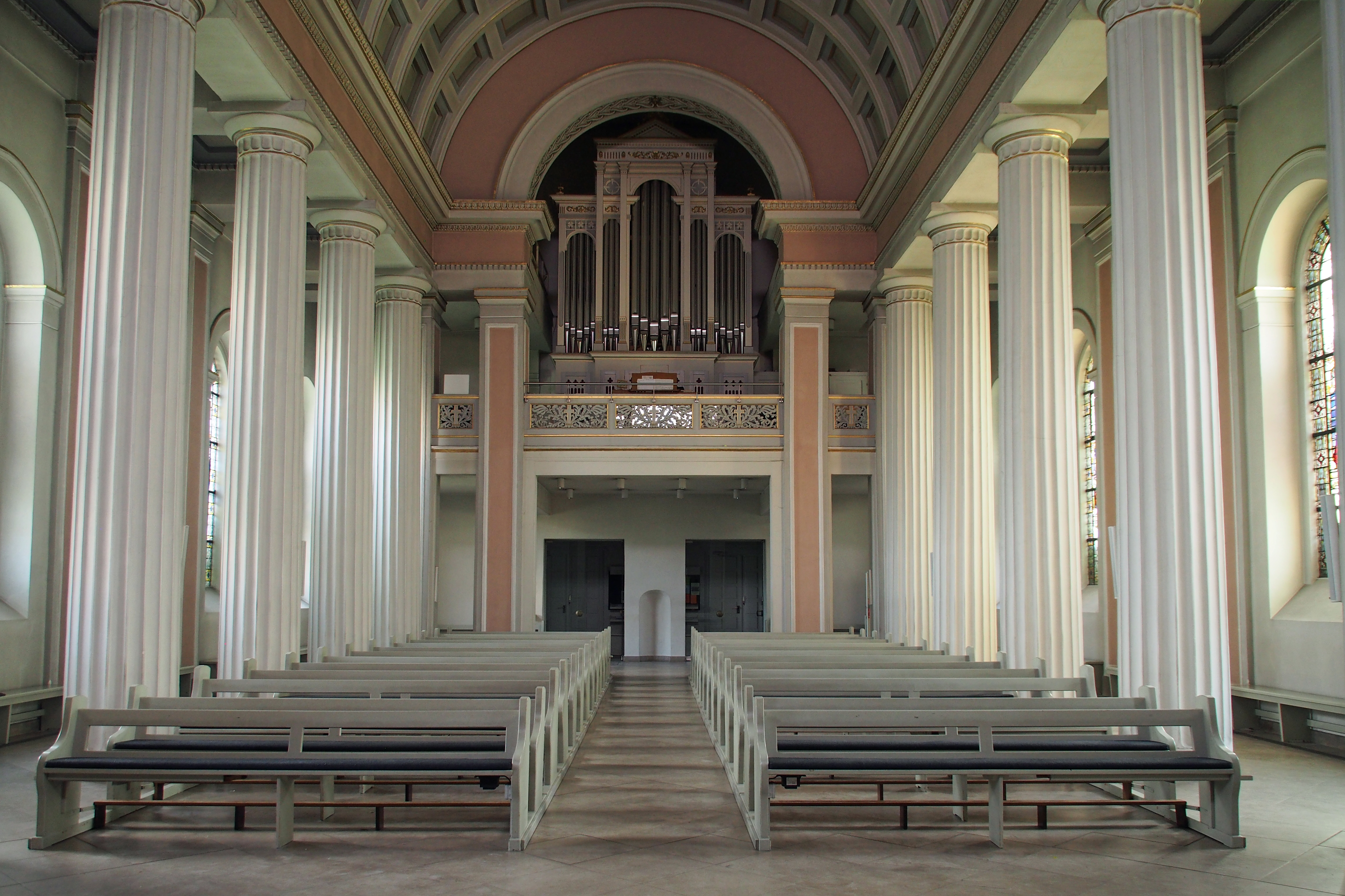 Interior of Church St.Ludwig Celle, Lower Saxony, Germany